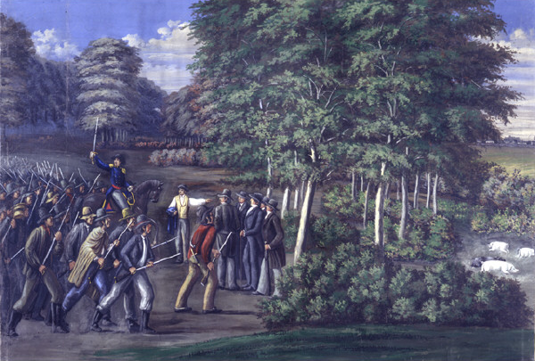 "The Arrest of Mormon Leaders" by C.C.A. Christensen